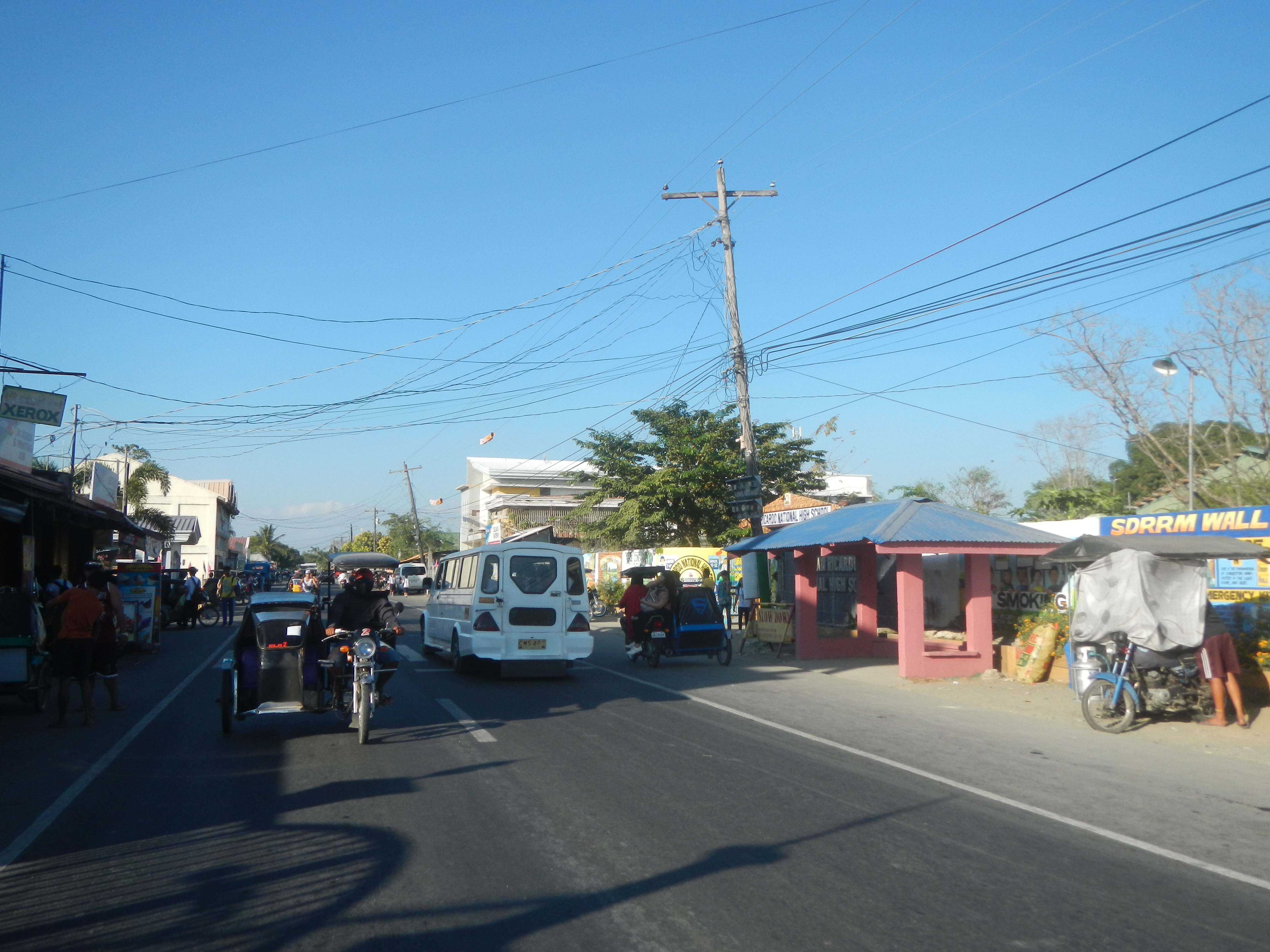 Casile, Llanera, Nueva Ecija Category:Barangays of Nueva Ecija Barangays Bagumbayan (Poblacion), is beside Victoria, Llanera 15.6705, 121.0132 General Luna 15.6298, 120.9920 Llanera, Nueva Ecija to General Ricarte, Llanera, Nueva Ecija Pinagpanaan, Talavera 15.5536, 120.9489 Barangay Pinagpanaan, Talavera Nueva Ecija Junction Pinagpanaan-Rizal-Pantabangan Road (Talavera-Llanera, Nueva Ecija section) along the Maharlika Highway of the Pan-Philippine Highway, also known as the Maharlika "Nobility/freeman" Highway or Asian Highway 26) of the Philippine highway network (Note: Judge Florentino Floro, the owner, to repeat, Donor Florentino Floro of all these photos hereby donate gratuitously, freely and unconditionally Judge Floro all these photos to and for Wikimedia Commons, exclusively, for public use of the public domain, and again without any condition whatsoever).